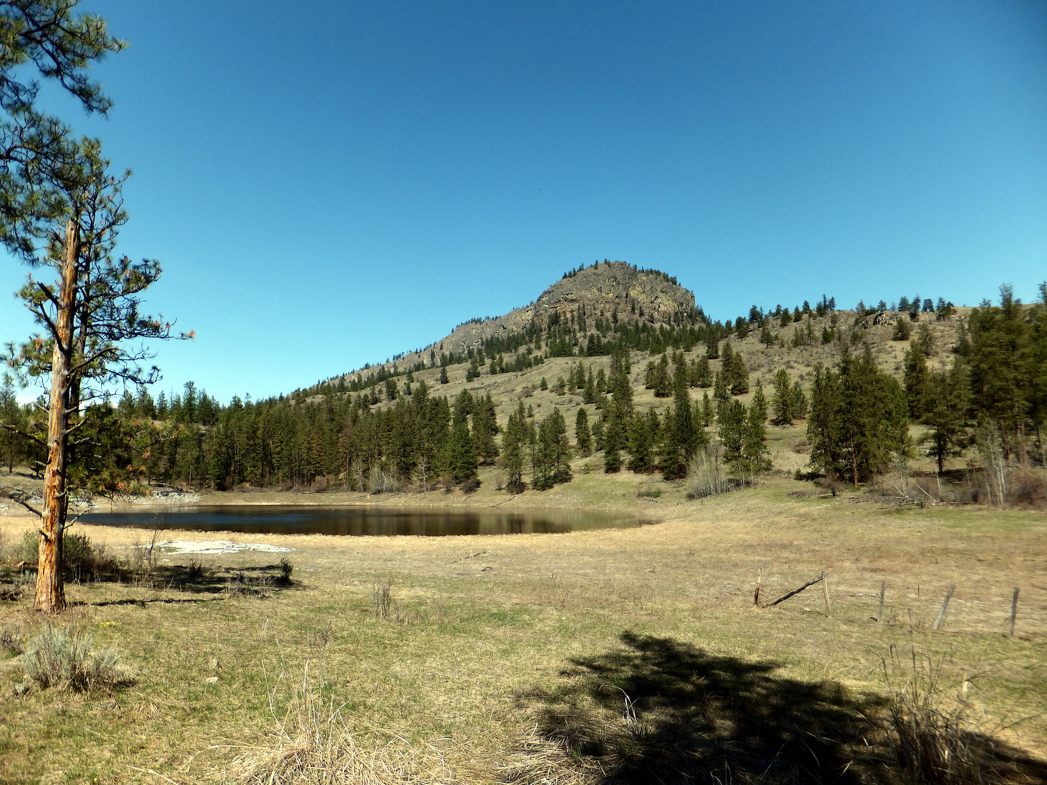 Rattlesnake Lake